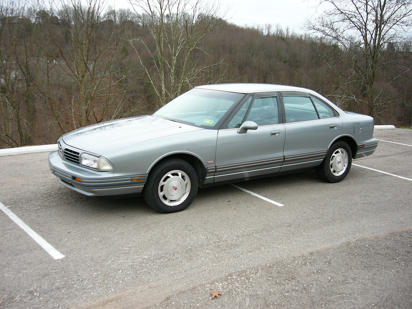 1995 Oldsmobile Eighty-Eight Royale (C) 2004 Matthew Bowen